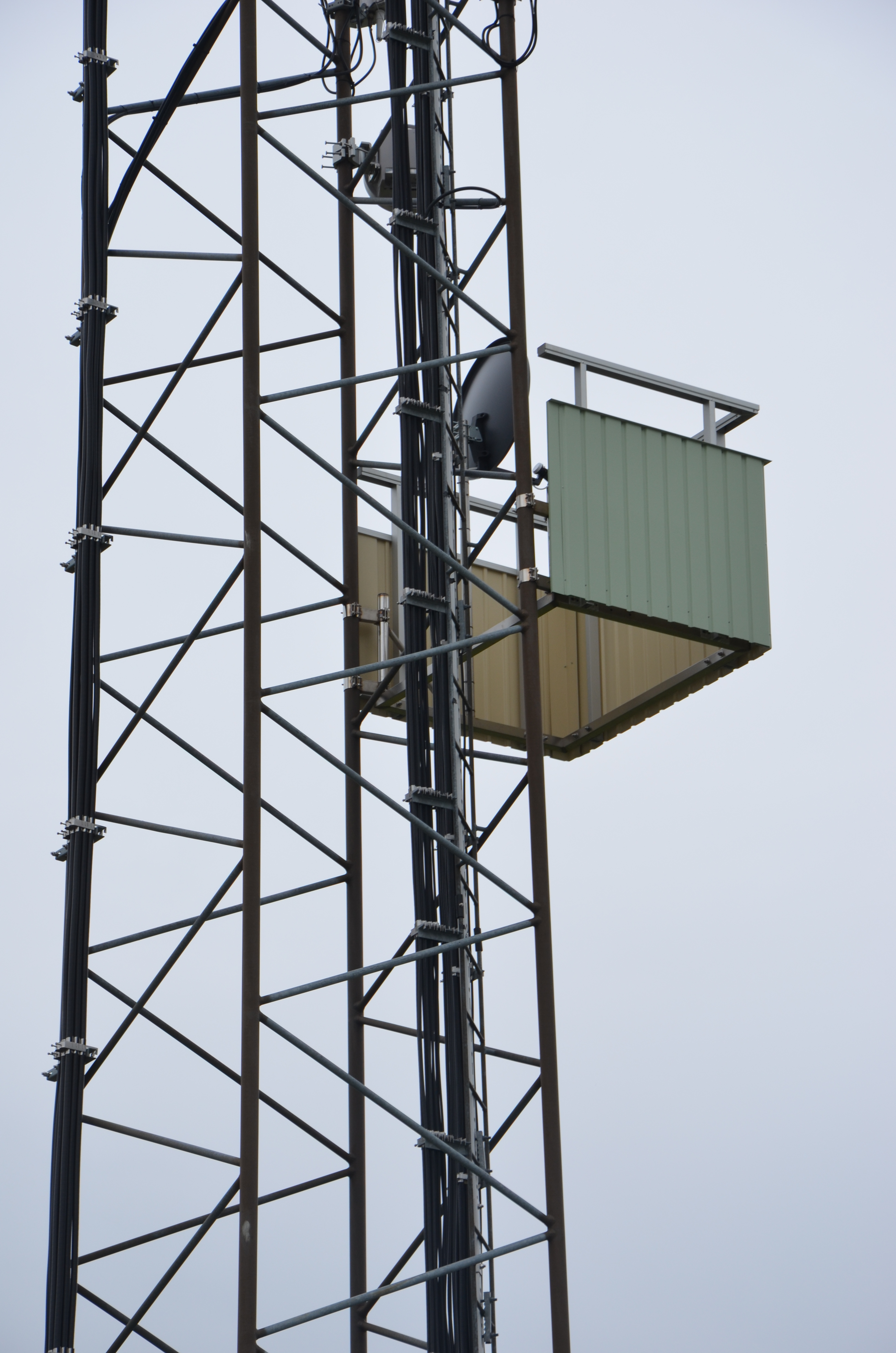 Periphery III by Sirous Namazi at Konst på Hög, Kumla, Sweden